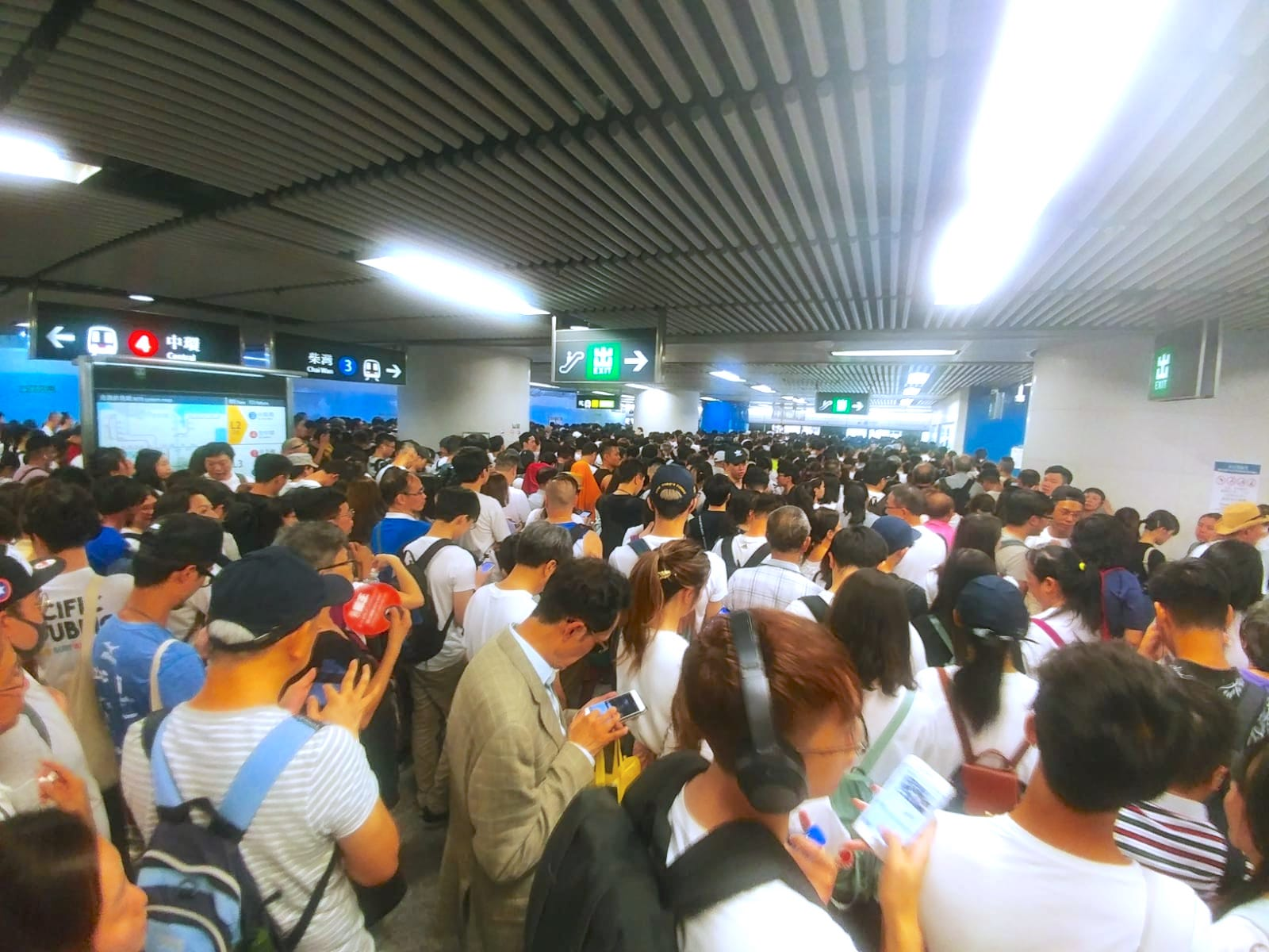 Crowd heading to June9 protest in Admiralty MTR Station.